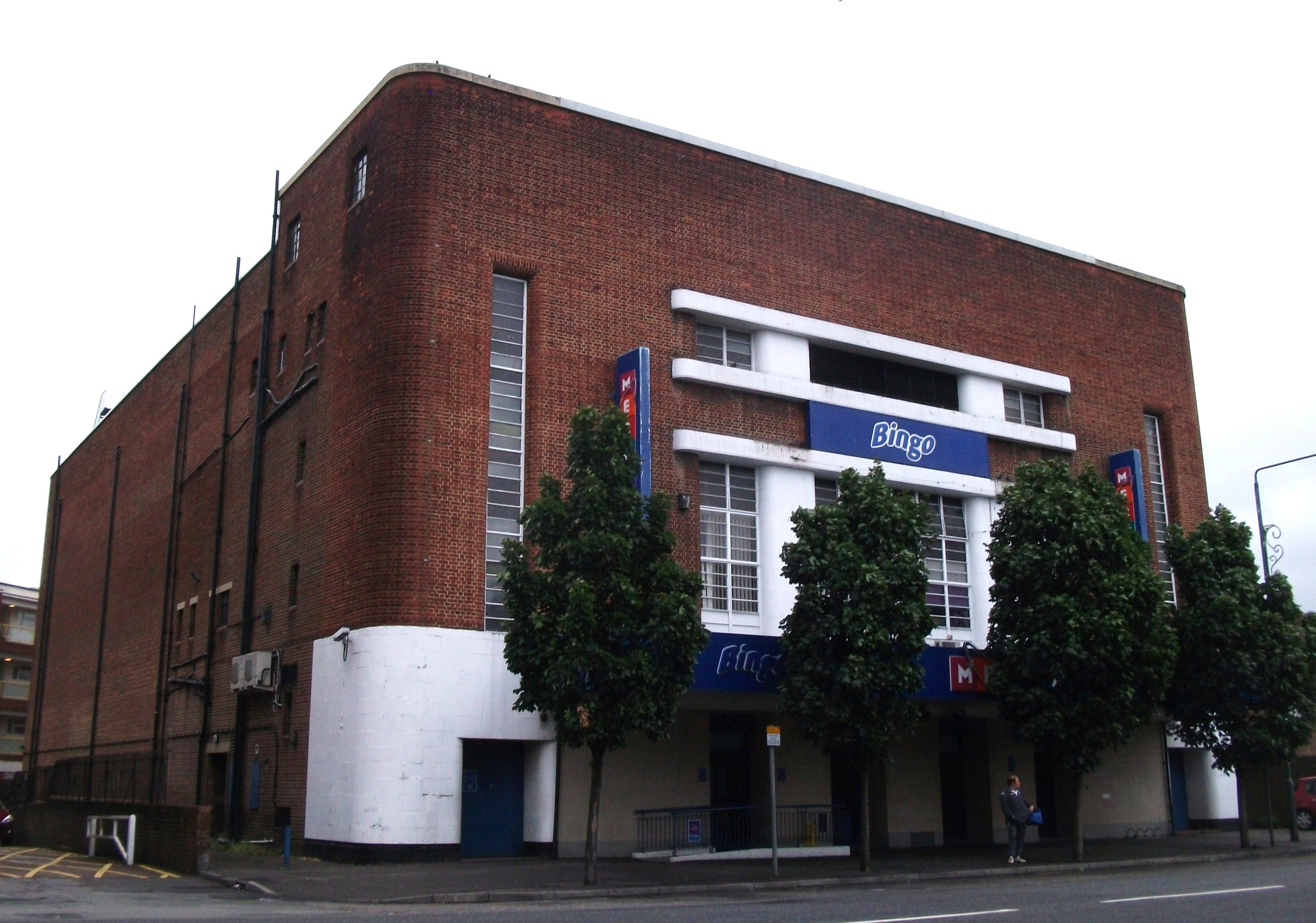 The old Art Deco style Mecca Bingo hall in Bishopsford road Morden just off the Rosehill roundabout Carshalton. I am guessing this was once an old cinema, a lovely looking building.